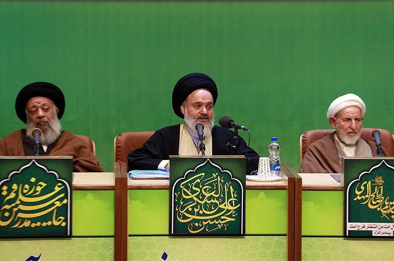 Ayatollah Hashem Hosseini Boushehri and Ayatollah Mohammad Yazdi and Ayatollah Mohammad Ali Mousavi Jazayeri in The annual meeting of the Society of Seminary Teachers of Qom